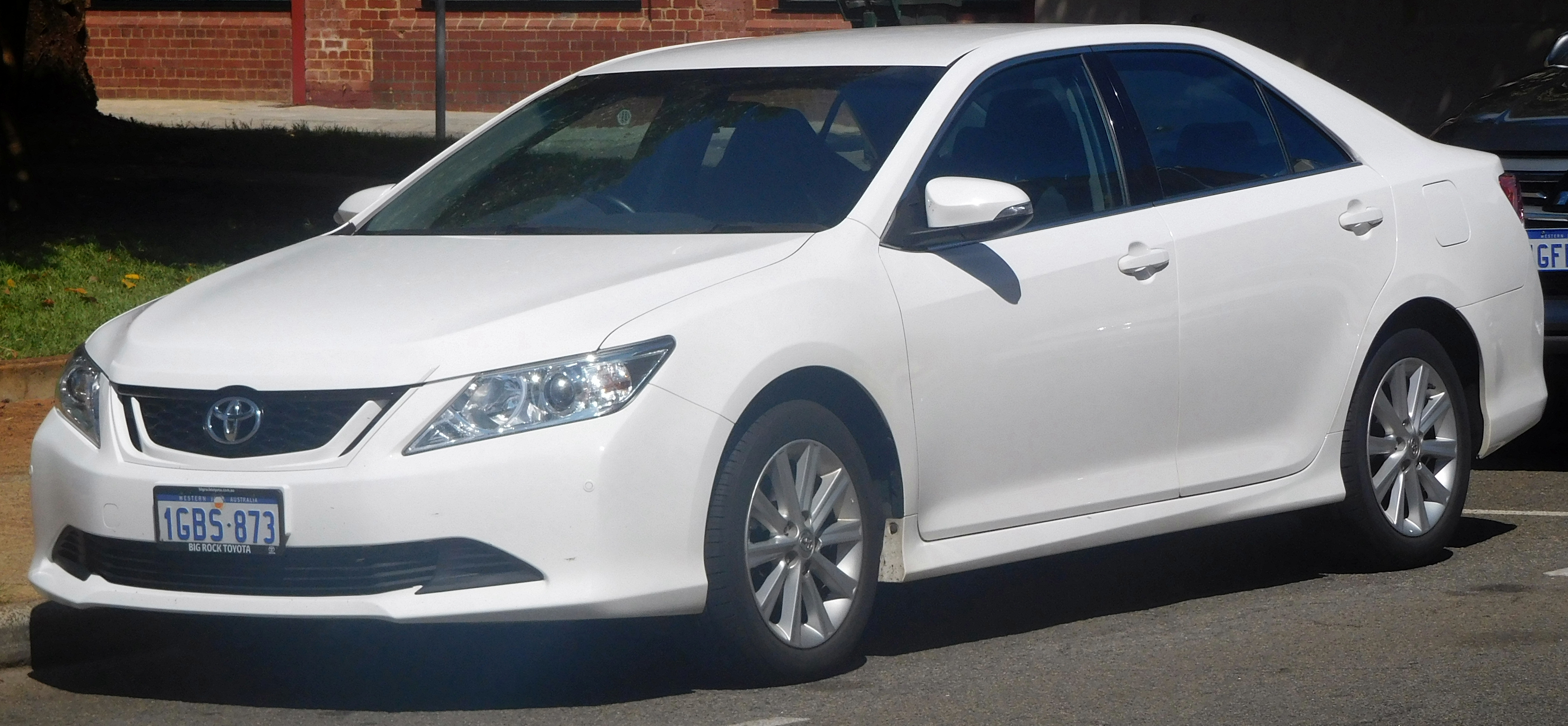 2016 Toyota Aurion (GSV50R) AT-X sedan. Photographed in Fremantle, Western Australia, Australia.